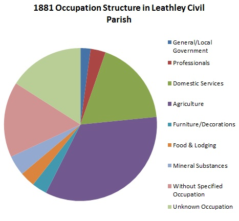 A breakdown of occupations help by residents of Leathley Civil Parish in 1881